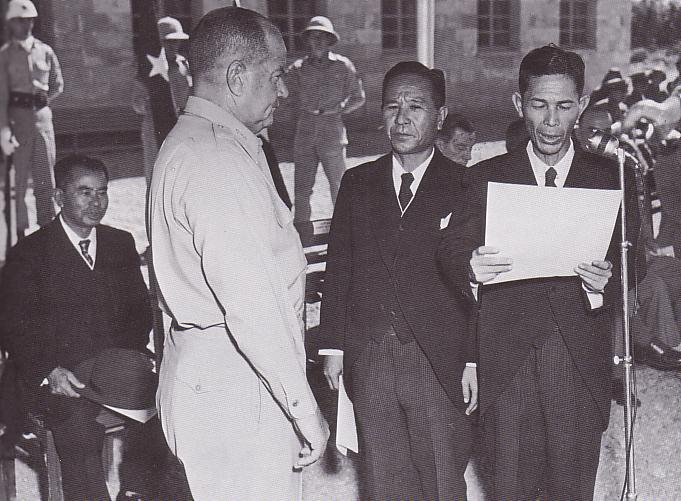 Okinawa Gunto Governor Taira who takes the oath of office